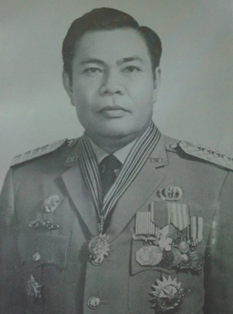 General Maraden Panggabean as Commander of the Indonesian National Armed Forces